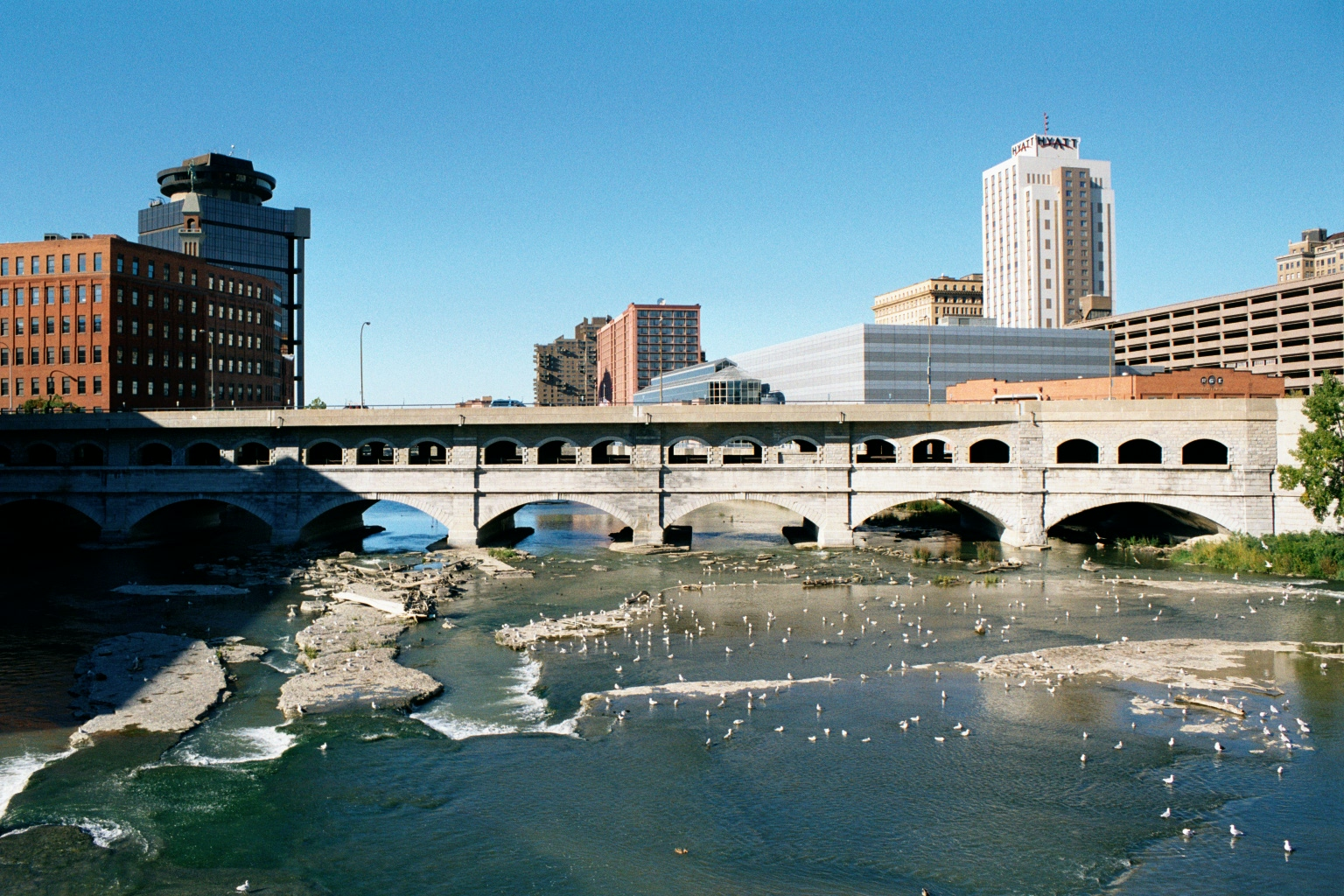 Broad Street Bridge, as seen from the South. This bridge was formerly the Erie Canal Aqueduct (built in 1842) that allowed the Erie Canal to cross the Genesee River. In the time from 1927 to 1956 it hosted the Rochester Subway which followed the former bed of the Erie Canal and which was covered by the Broad Street.